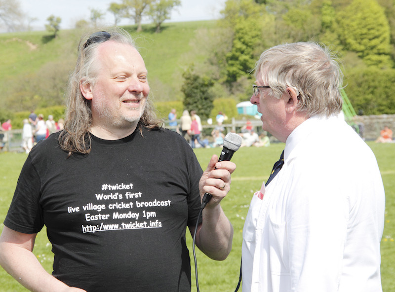 John Popham interviews the umpire at Twicket. URL on t-shirt is